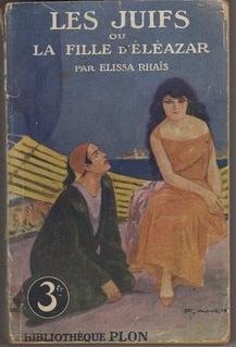 Cover of the book: Les Juifs ou la fille d'Eleazar, writen by Elissa Rhais, édited by Plon in 1921